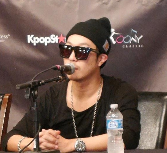 Haha on stage, Running Man Bros US Tour, press conference, Dallas, November 14, 2014